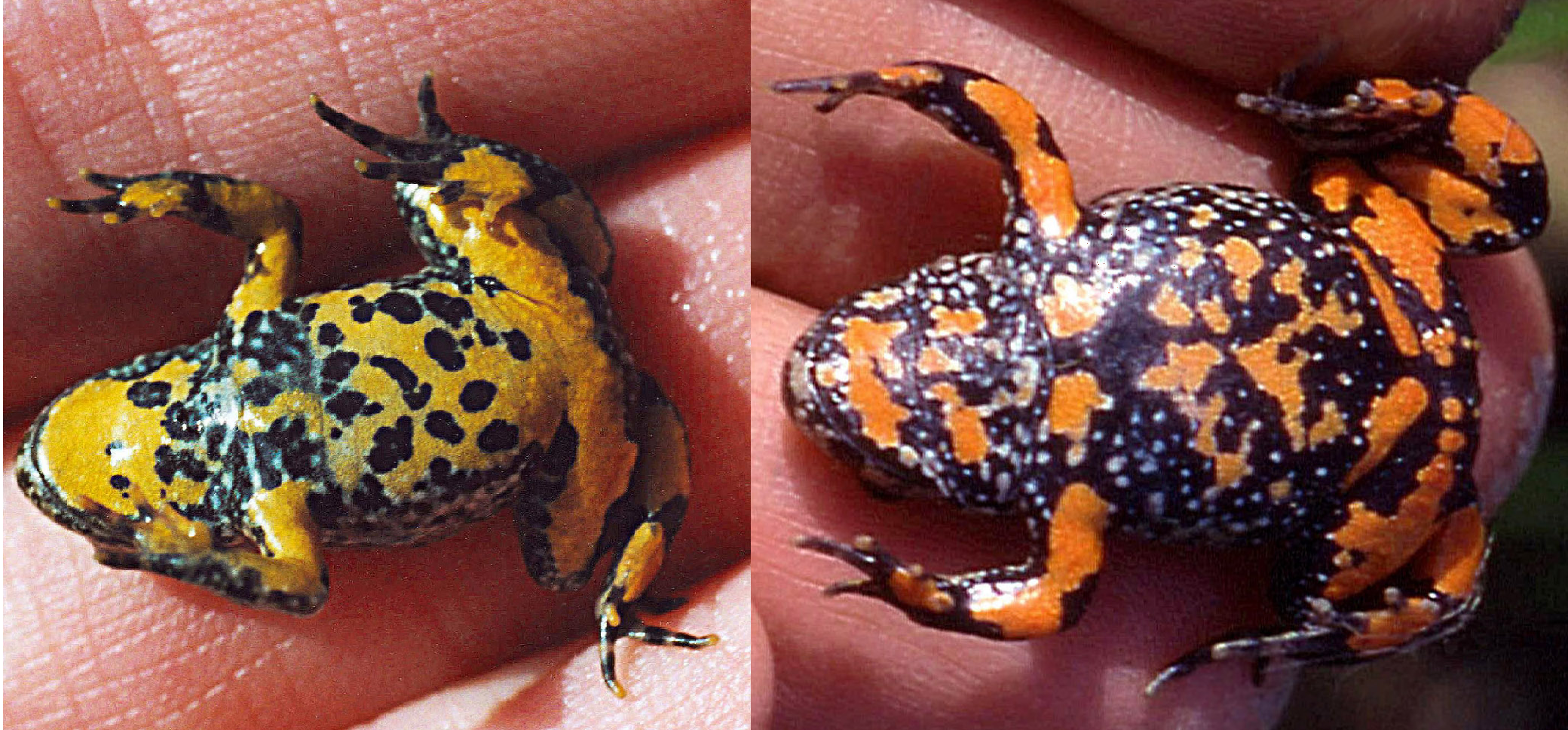 Comparison between two juvenile specimen of the Yellow-bellied Toad (Bombina variegata; left) and the European Fire-bellied Toad (Bombina bombina; right). Both have been turned on their back to demonstrate the coloured and patterned ventral side.